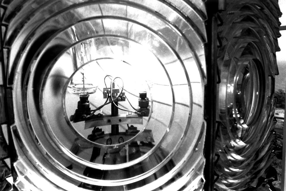 A lamp on display at the Cape Blanco Light in Cape Blanco, Oregon, in August 2003.